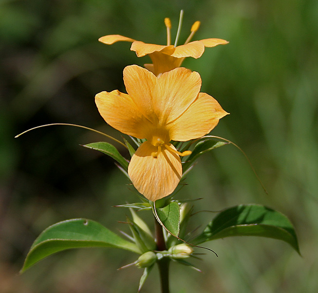 Porcupine flower, Espinosa amarilla or Picanier jaune Barleria prionitis in Hyderabad , India.